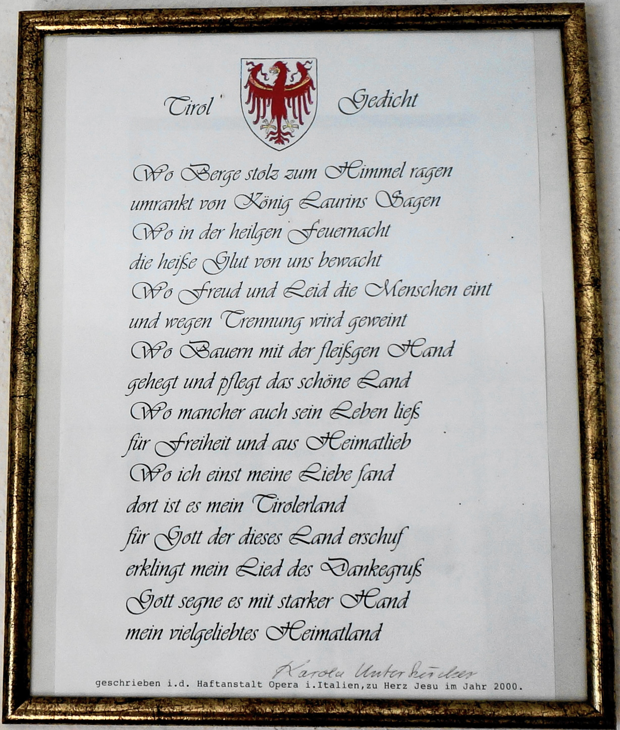 Tirol poem written in the Imprisoning Opera in Milano, Italy in the year 2000 by Karola Unterkircher